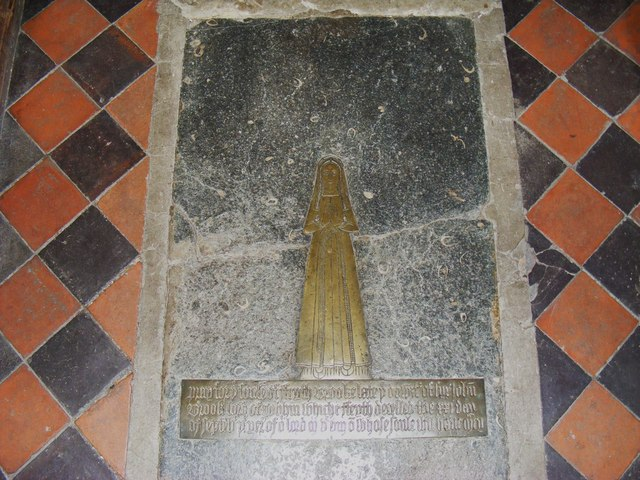 Monumental brass in St. James Church, Cooling, Kent, to Faith Brooke (d. 21 September 1508), a daughter of John Brooke, 7th Baron Cobham (d. 1512), of Cooling Castle. Inscription: PRAY FOR YE SOULE OF FFEYTH BROOKE LATE YE DAUGHT. OF SIR JOHN BROOKE, LORD OF COBHAM WHICH FFEYTH DECESSED THE XXI DAY OF SEPTEB. YE YER OF OR. LORD MDVIII ON WHOSE SOULE JHU. HAVE MCY.